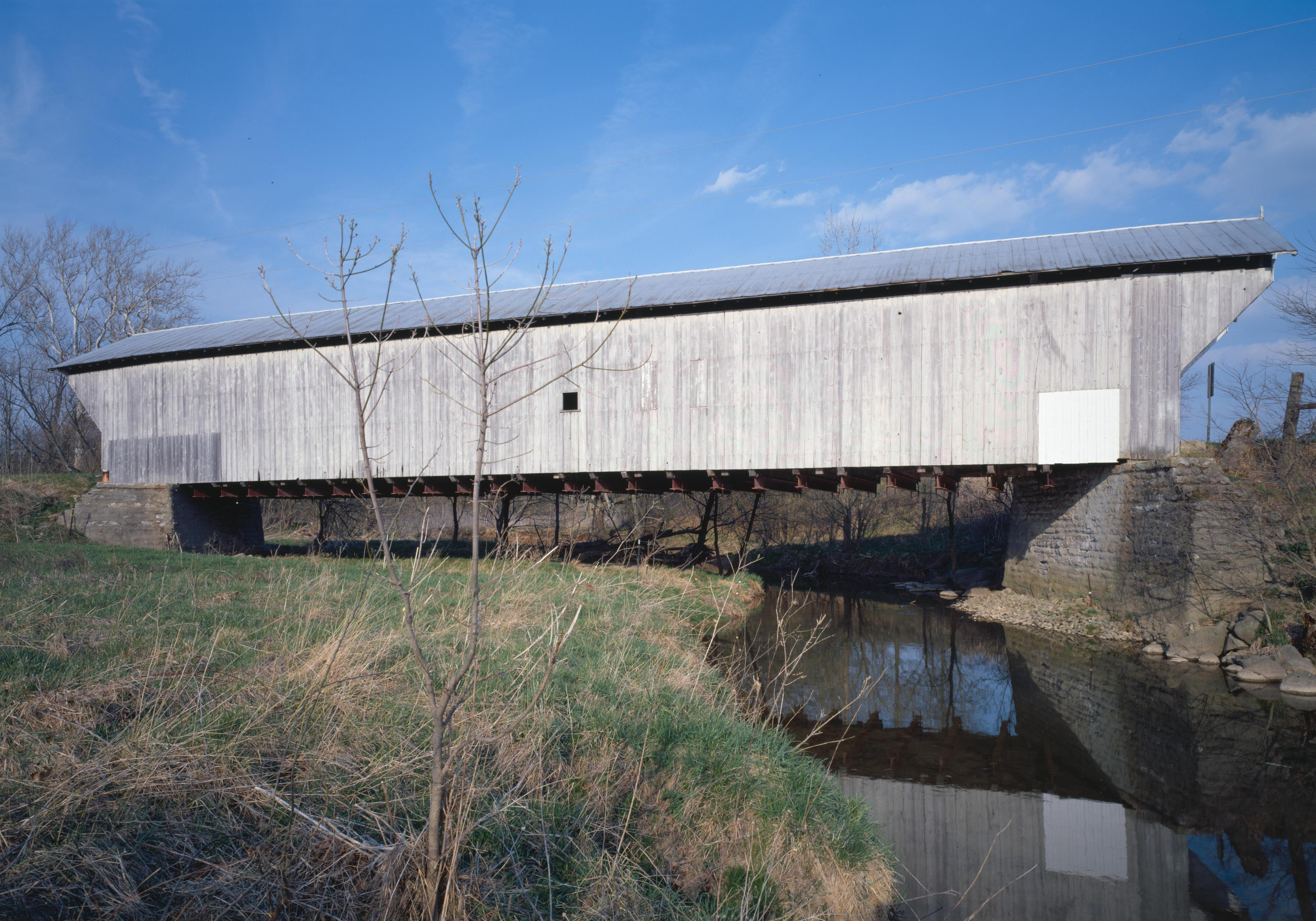 Eastern side of the Harshman Covered Bridge, which carries Concord-Fairhaven Road over Four Mile Creek four miles north of Fairhaven in Dixon Township, Preble County, Ohio, United States. Built in 1894, this Childs truss covered bridge is listed on the National Register of Historic Places.